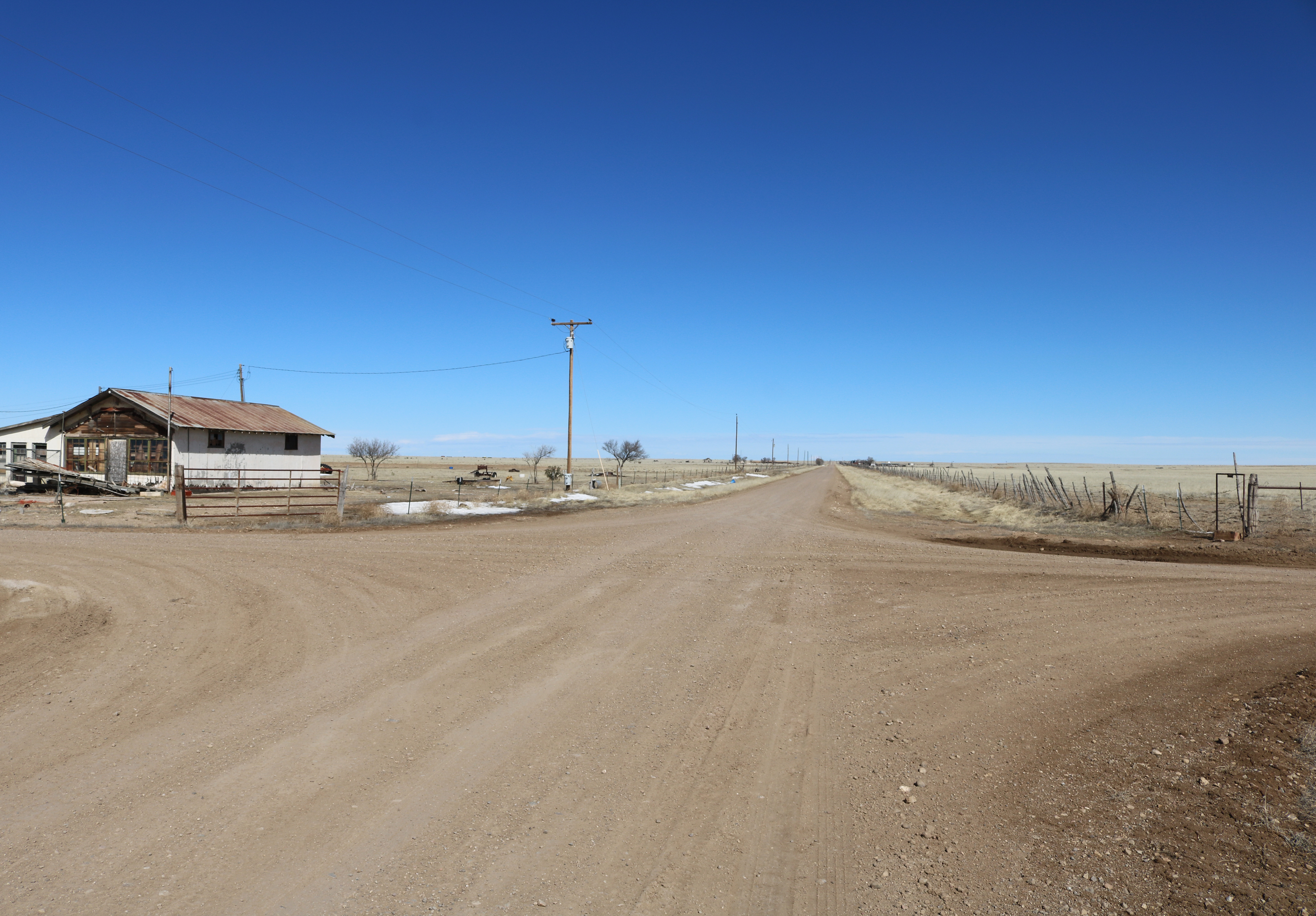 A view of Villegreen, Colorado. The view is towards the north along Las Animas County Road 179. The road that goes left to right is Las Animas County Road 44.